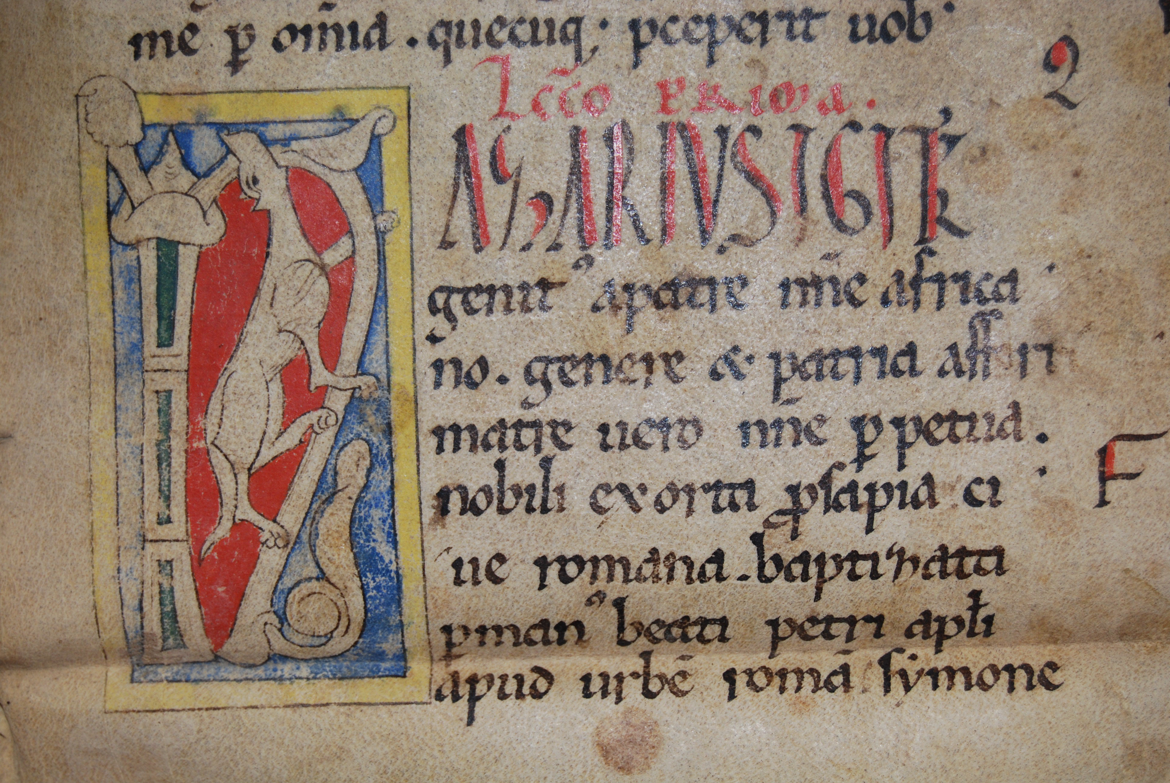 Initial letter "the Greyhound" . Fragment of Matins lectionary of the twelfth century. APSMP .